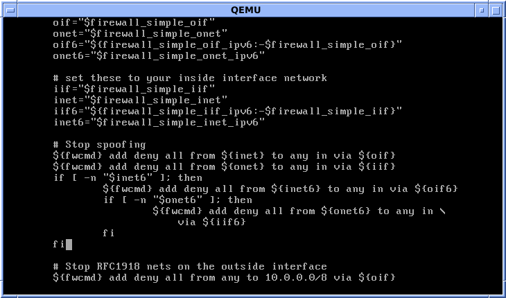 Using vi to edit "/etc/rc.firewall" in FreeBSD 10. Running in a QEMU VM.